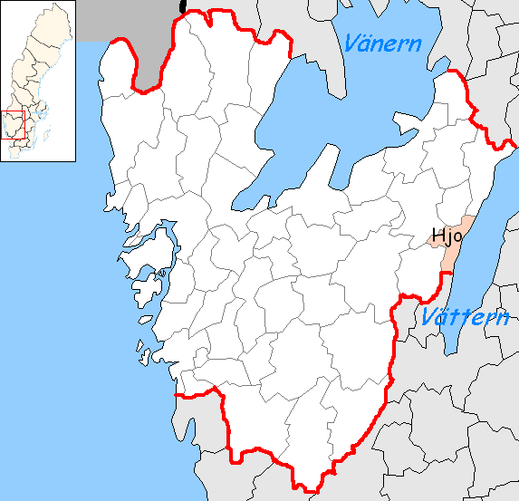 Hjo Municipality in Västra Götaland County Designed by me. Mere outlines are a PD source from